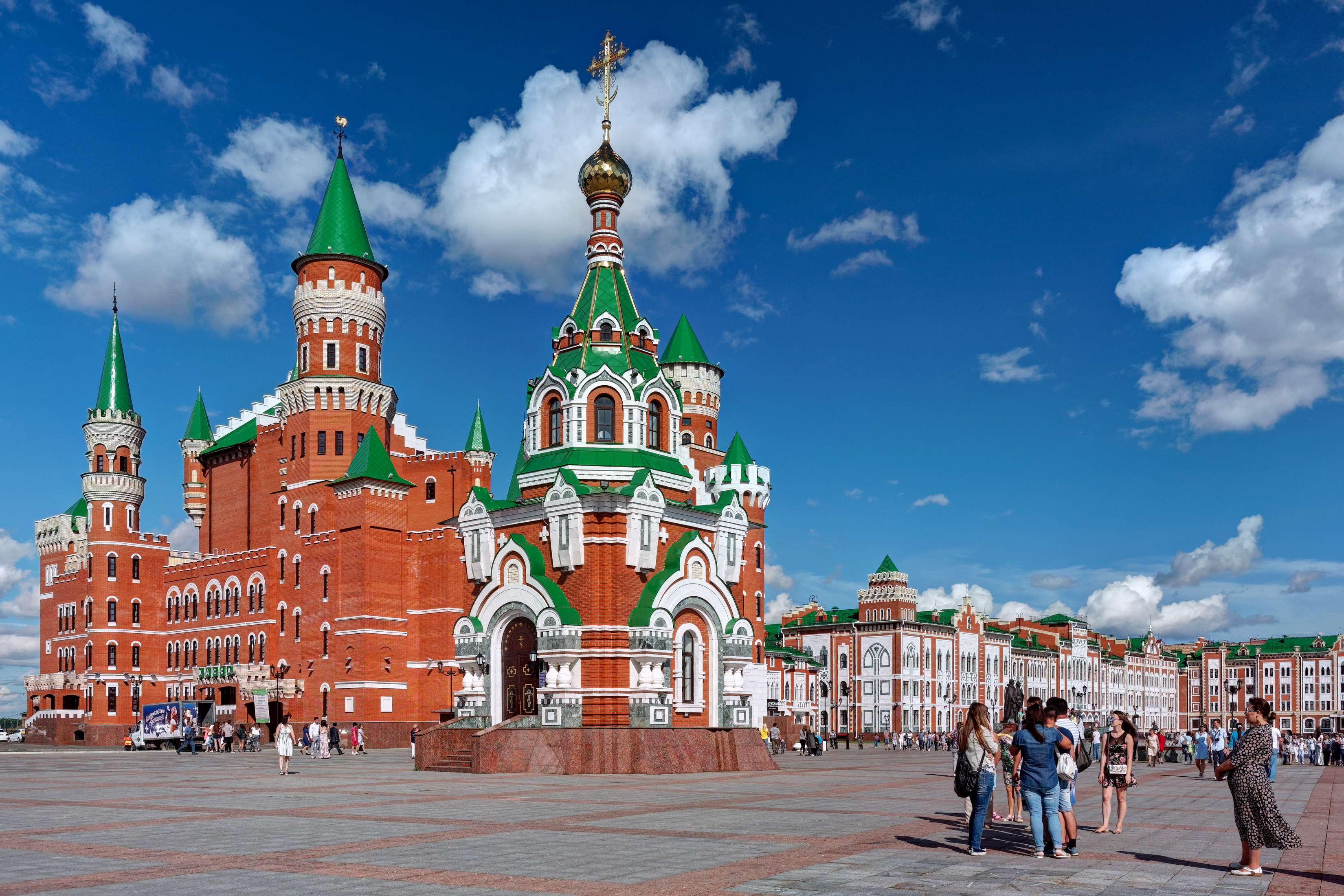 Yoshkar-Ola